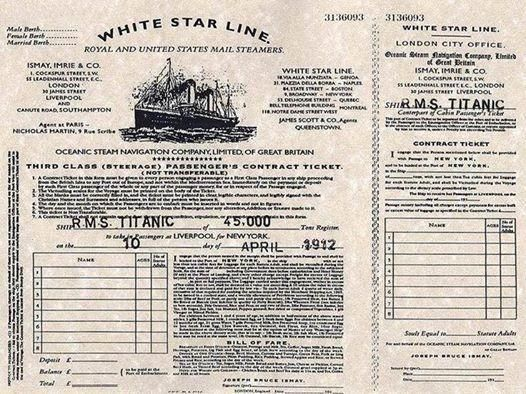 Ticket for the Titanic, 1912